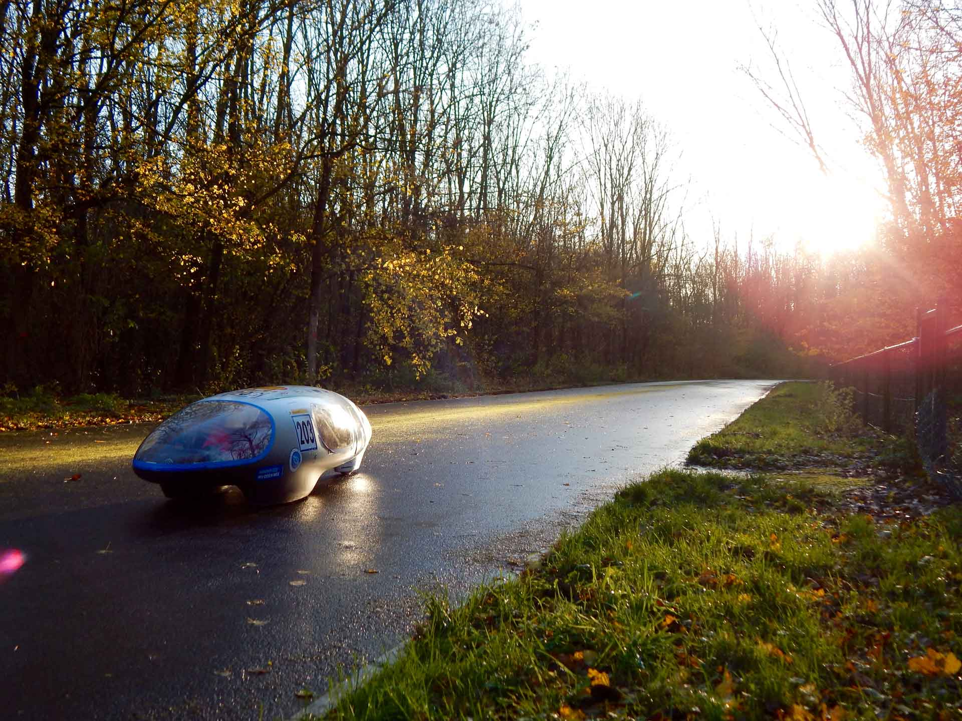 Eco-Runner 7 driving outside